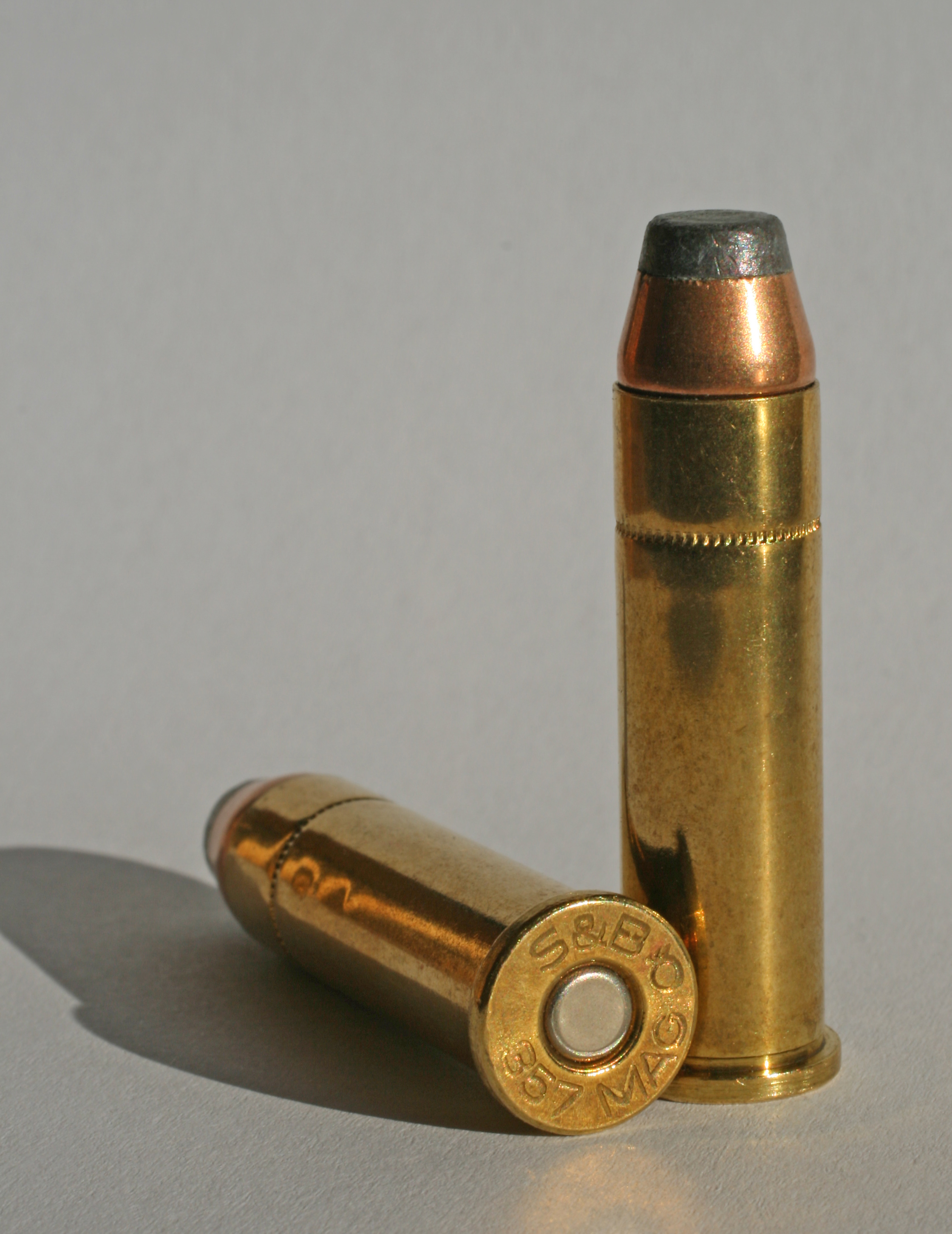 Macro of .357 Magnum ammunition, soft point.